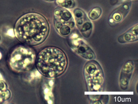 Phase contrast pictures. x40 objective lens by Olympus CX41 microscope. Amoebidium cells and daughter cells (half moon-like). Picture courtesy of Hiroshi Suga .